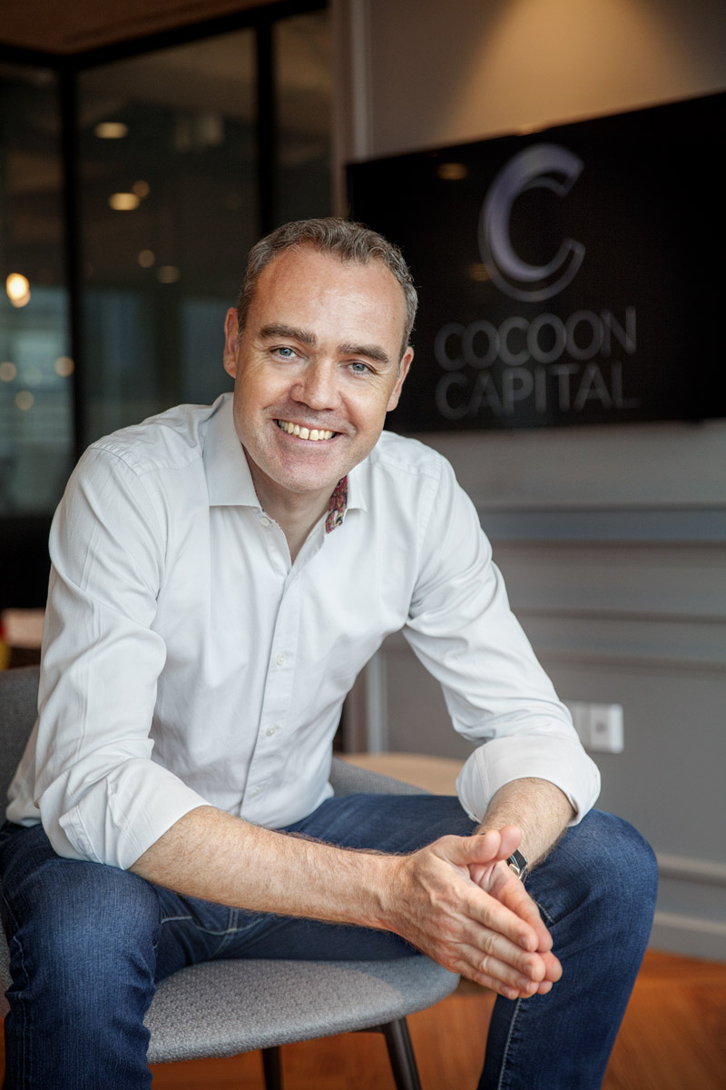 Portrait of William Klippgen